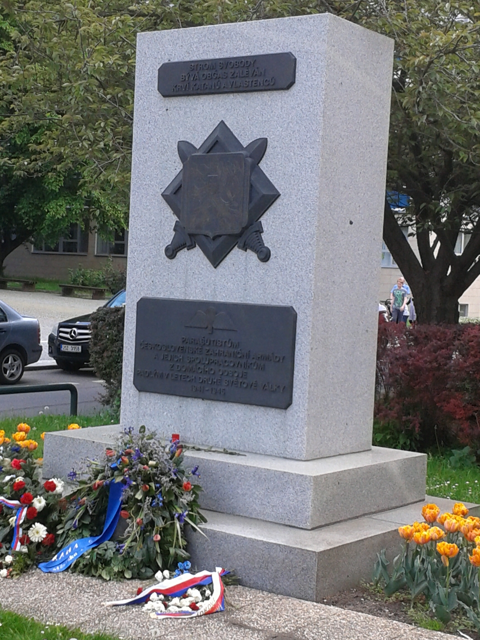 Memorial is dedicated to the Paratroopers of the Czechoslovak Foreign Armed Forces and Their co-workers from the domestic anti-german resistance, fallen in the Second World War 1941 - 1945. The memorial is located at the address: Technická 1902/4, 160 00 Prague 6 - Dejvice, Czech republic. Memorial was unveiled in 1995 and bears the inscription: "The tree of freedom is occasionally poured with blood of katanes and patriots".